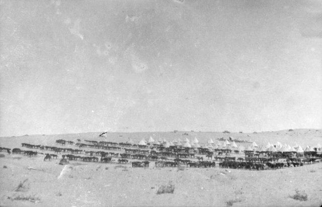 AWM caption : THE 1ST LIGHT HORSE REGIMENT AT ROMANI, BEFORE THE BATTLE OF ROMANI.